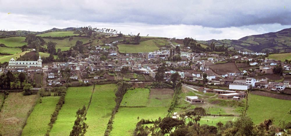 Iles